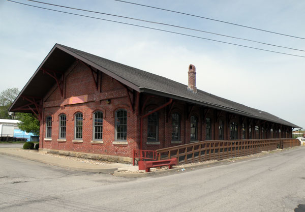 Picture of the Pennsylvania Railroad Freight Station located at 111 Washington Street in Washington, Pennsylvania, on May 1, 2010. Built around 1870, and formerly operated by the Pennsylvania Railroad, the freight station is listed on the National Register of Historic Places.